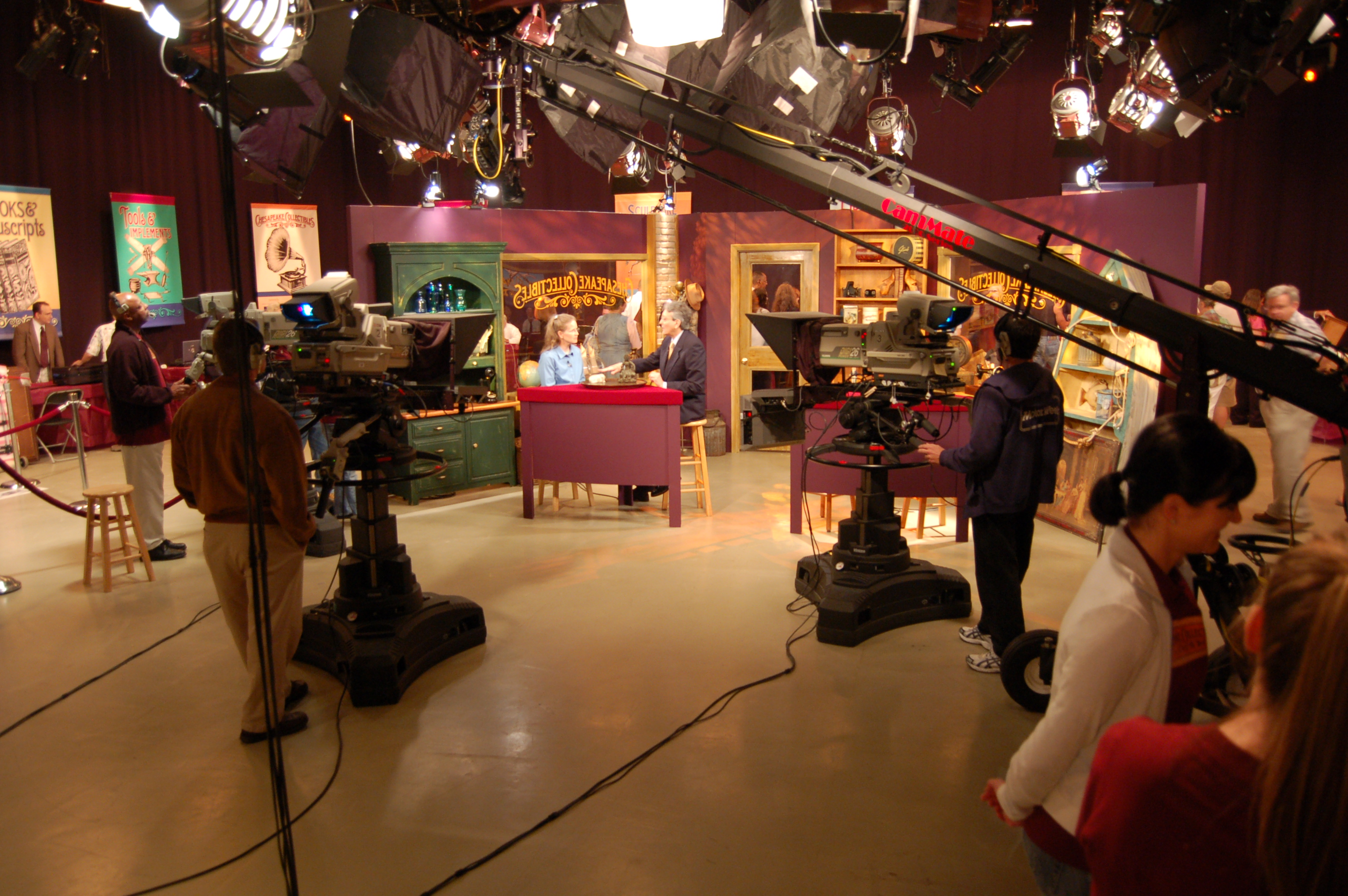 Inside MPT's Studio A during the taping of "Chesapeake Collectibles" in June 2010 null